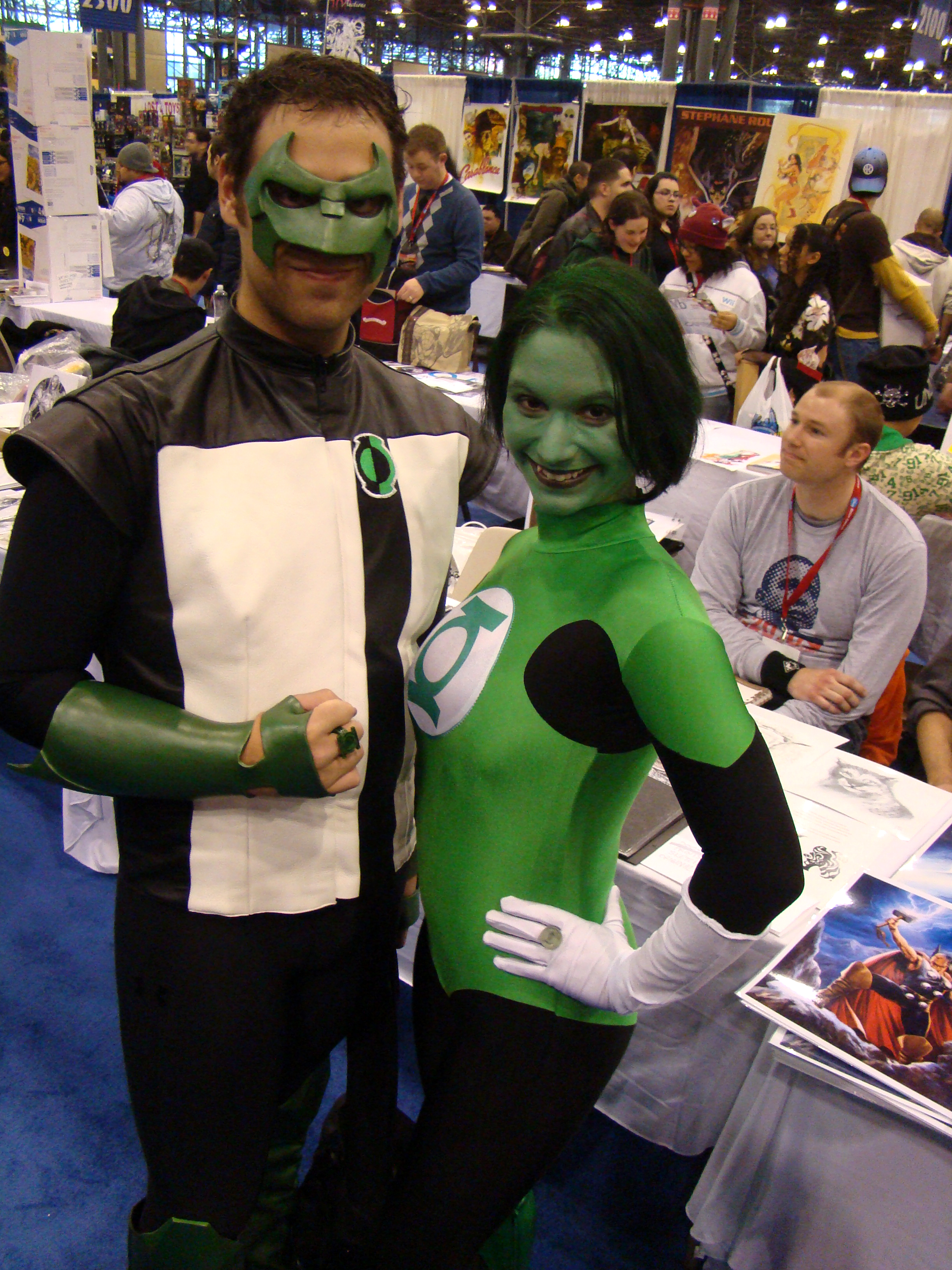 green lantern kyle rayner and jade. lovely couple, lovely costumes. New York Comic-Con, Saturday, February7th, 2009. If you see yourself in this or any of my other pictures, let me know in the comments, or by emailing me at loser: [at] istolethe [dot] tv.